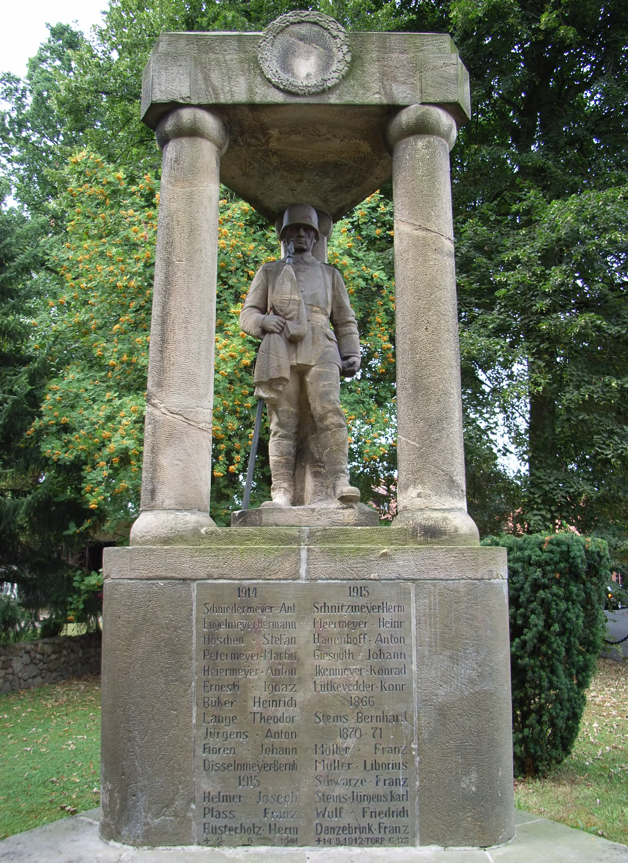 Elsen, Paderborn, Germany: Memorial for the dead soldiers of the World War I.